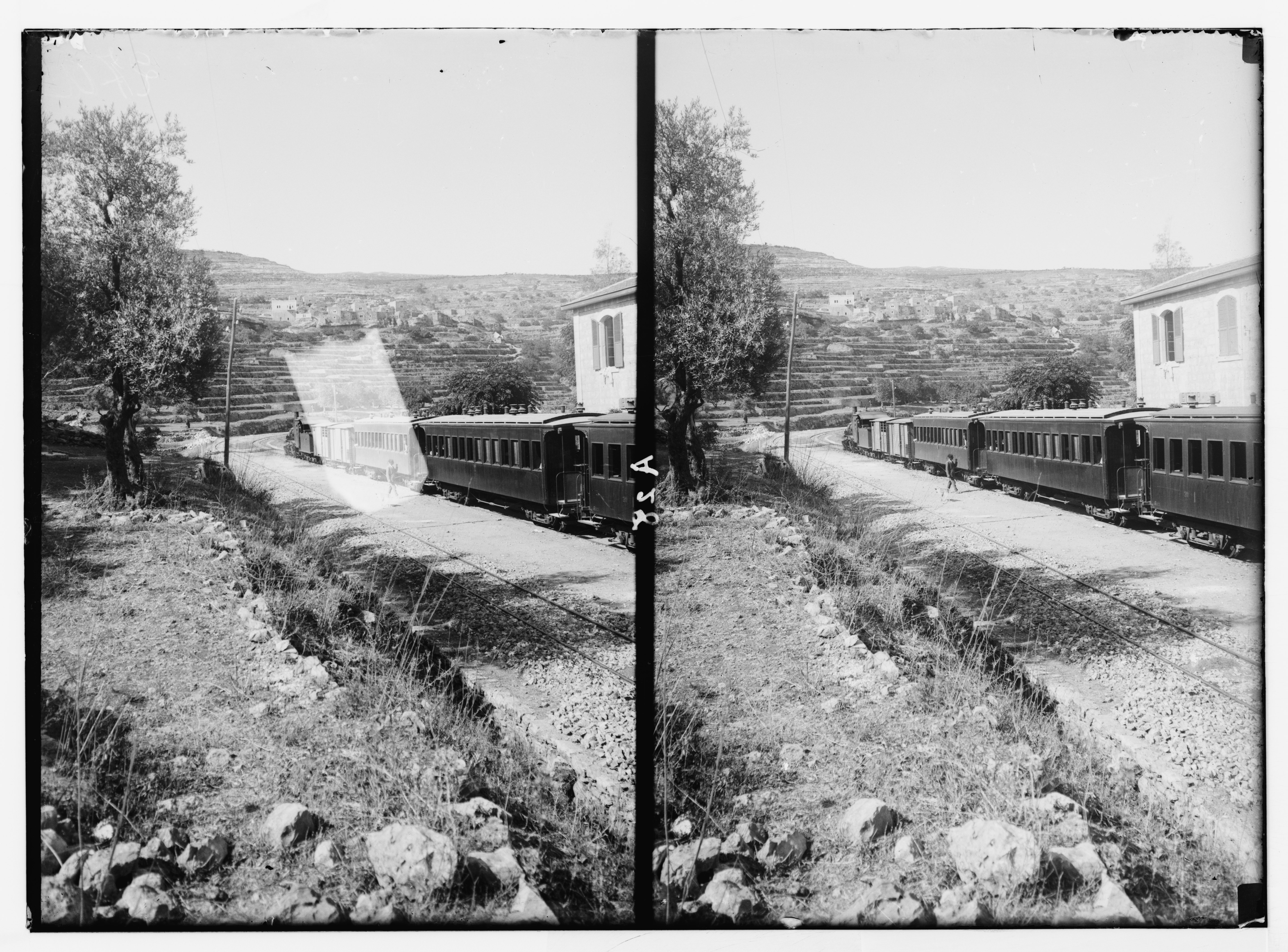 Title: Jaffa to Jerusalem. Bittir (Baither) Abstract/medium: G. Eric and Edith Matson Photograph Collection Physical description: 1 negative